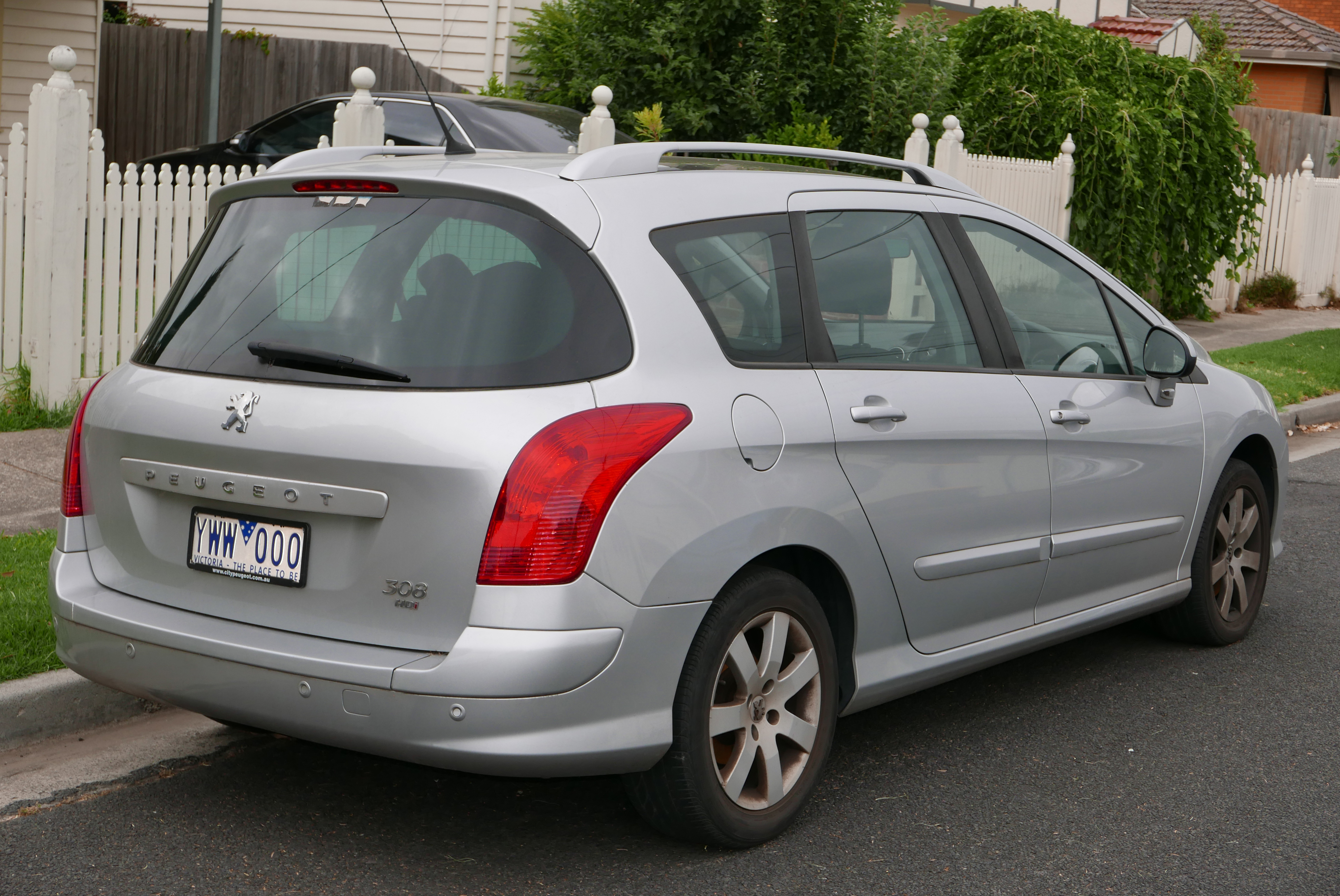 2010 Peugeot 308 (T7) XSE HDi Touring station wagon. Photographed in Coburg, Victoria, Australia. Vehicle registration enquiry resultsJurisdictionVictoriaRegistrationYWW000Chassis codeVF34HRHRHAS029577Engine code10DYXH4067489Compliance date2010-06Year of manufacture2010